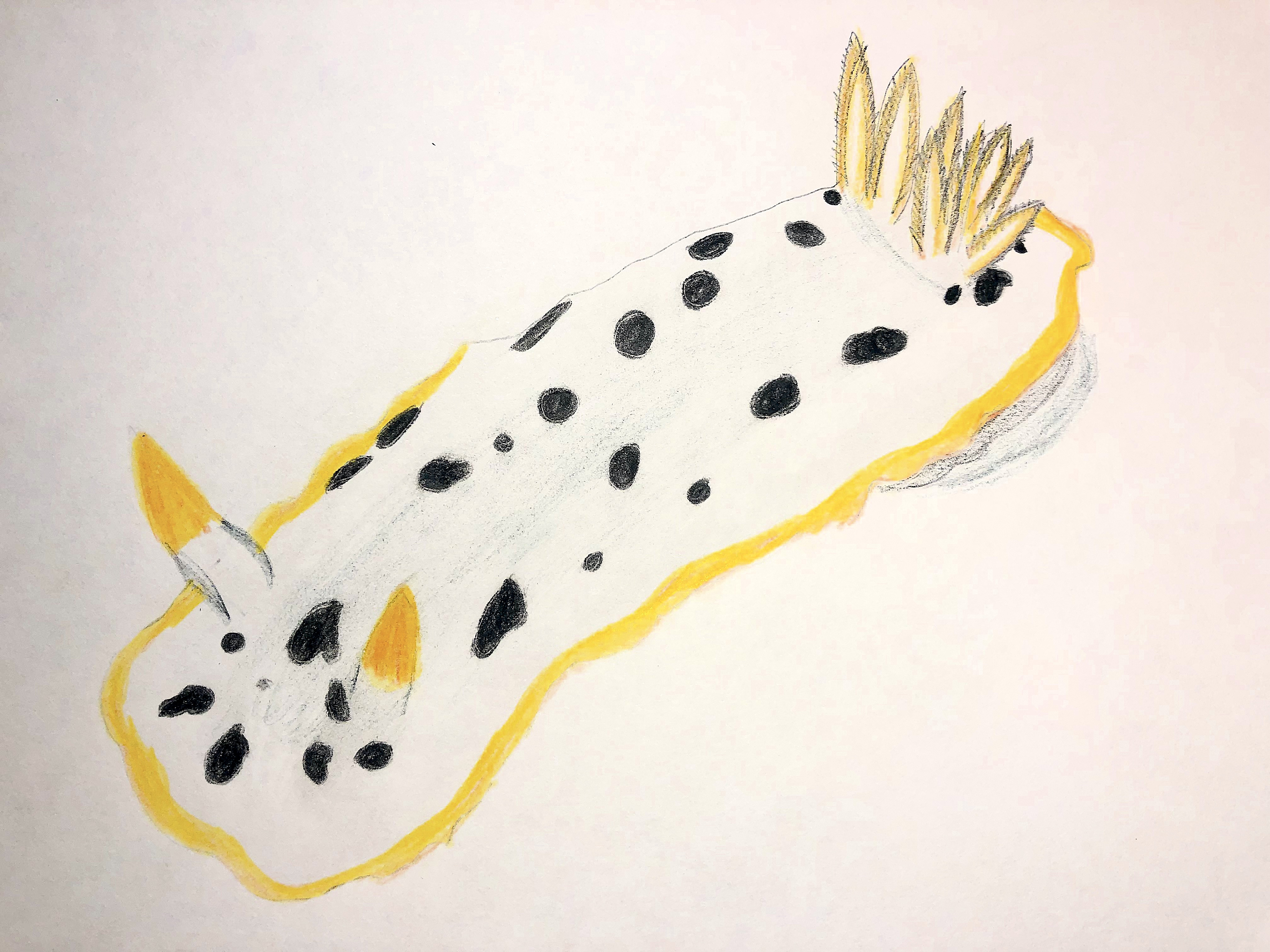 The nudibranch Chromodoris orientalis drawn showing white body, black spots, with yellow gills and accents throughout the body.